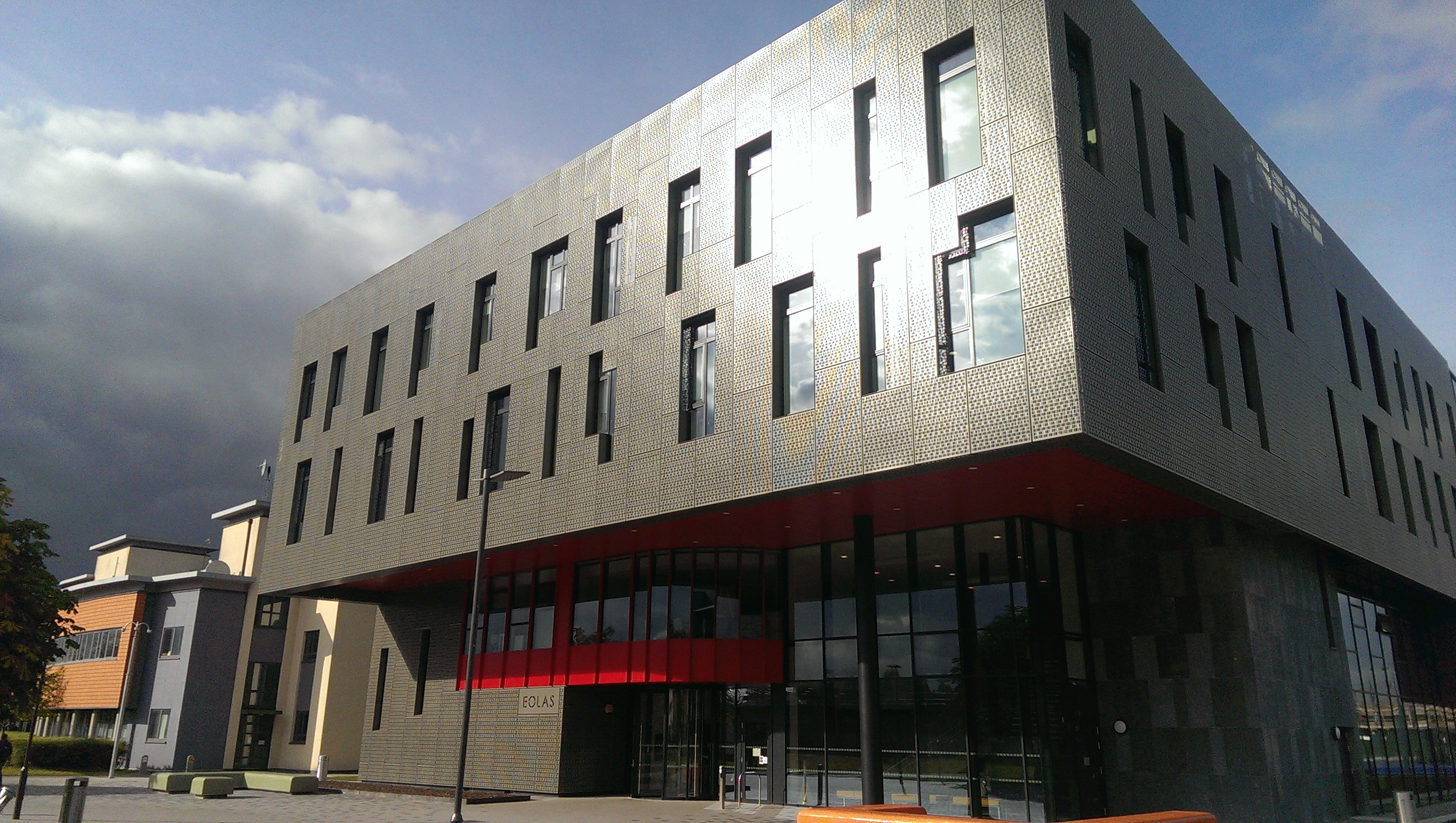 A photograph of the Eolas ("information" in Irish) Building at Maynooth University. Eolas opened in October, 2015.